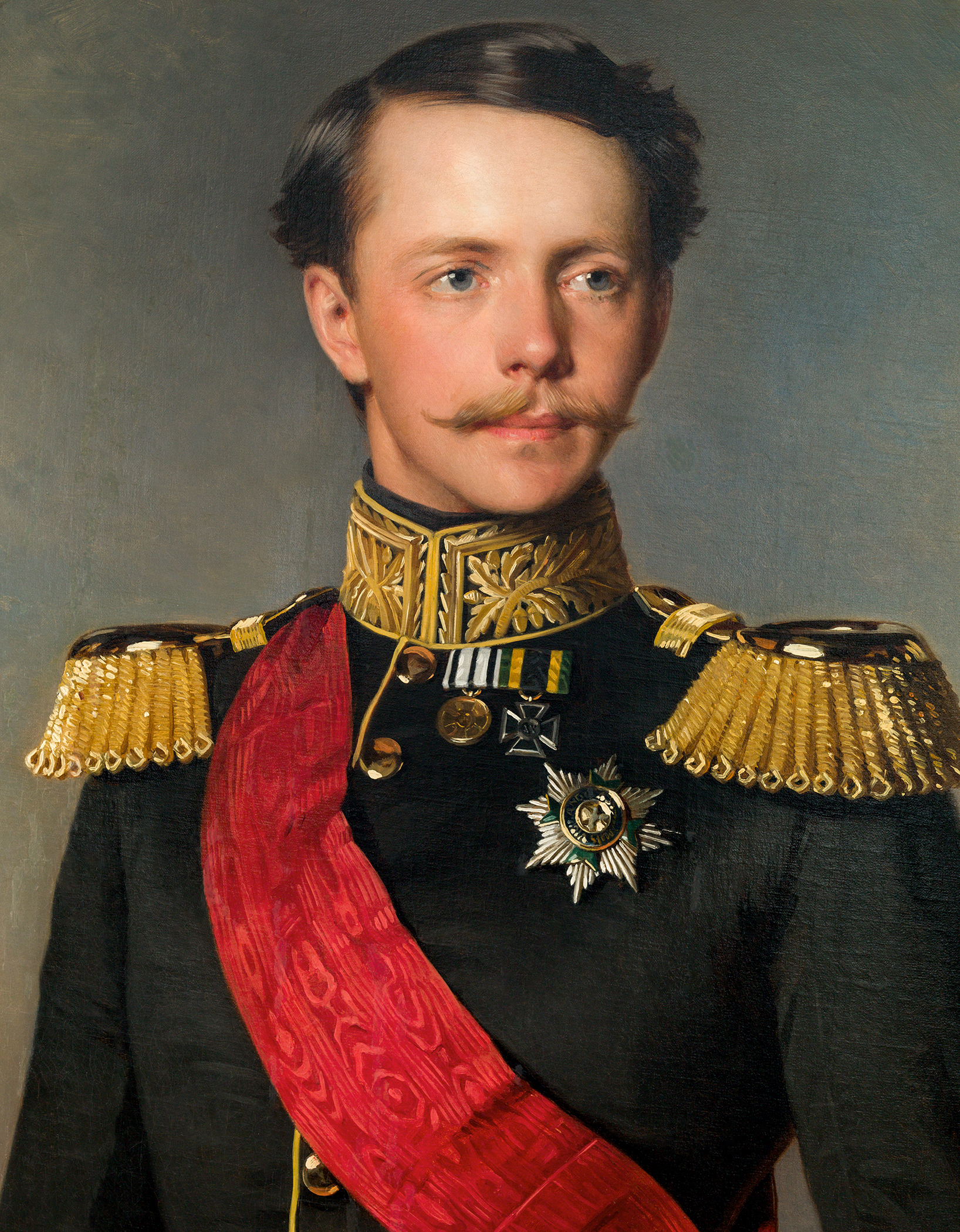 Charles Alexander (1818-1901), Grand Duke of Saxe-Weimar-Eisenach (1853-1901)